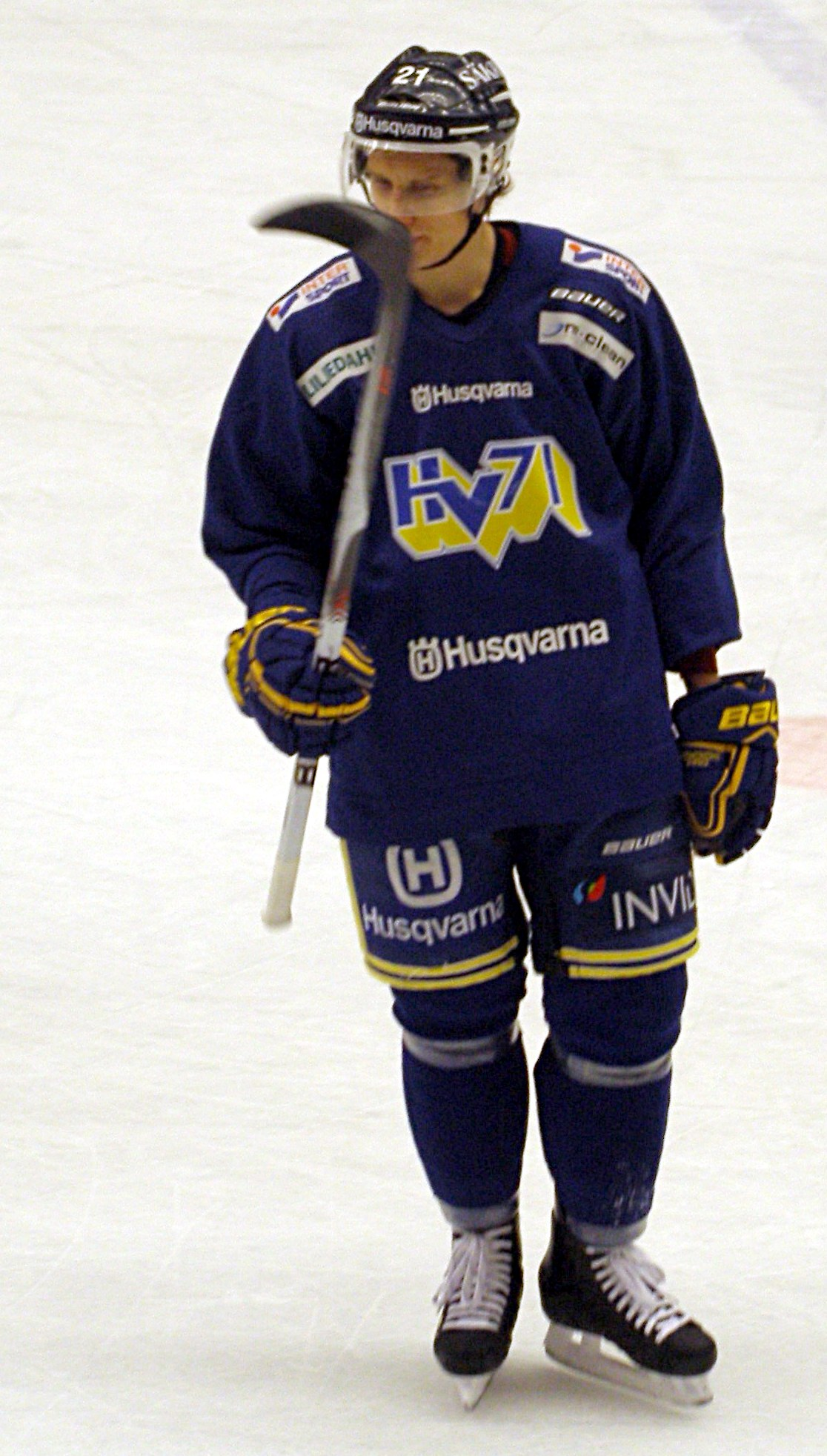 Pasi Puistola during practise, Kinnarps Arena, Jönköping, Sweden